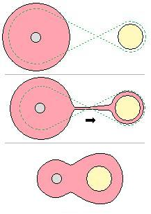 Diagram of how a common envelope is formed between two stars